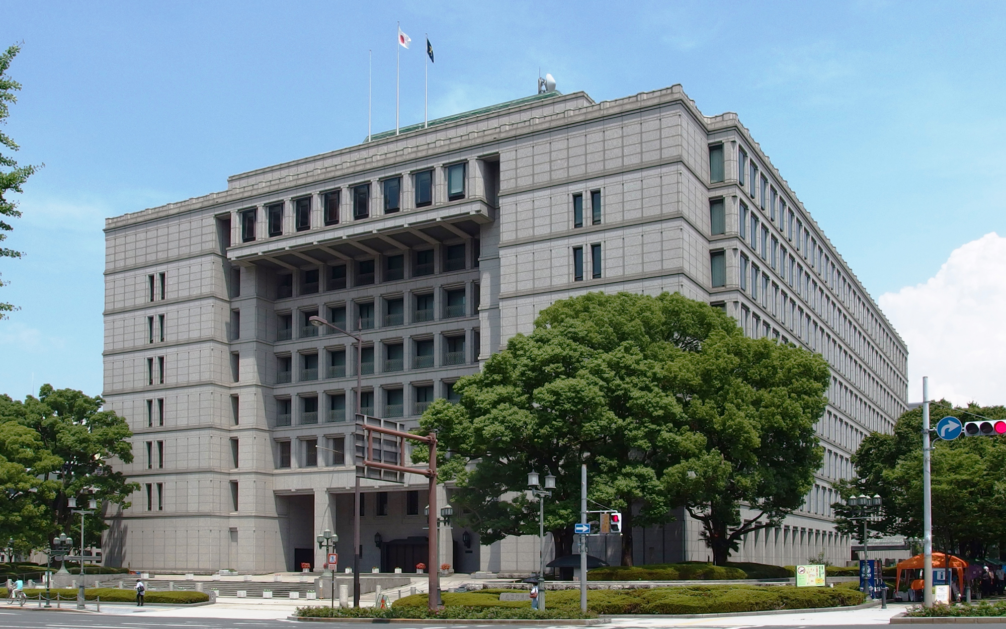 Osaka City Hall, Osaka, Osaka prefecture, Japan